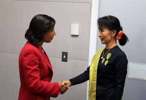 Had the great honor today of meeting Aung San Suu Kyi: a fierce, fearless role model for us all.